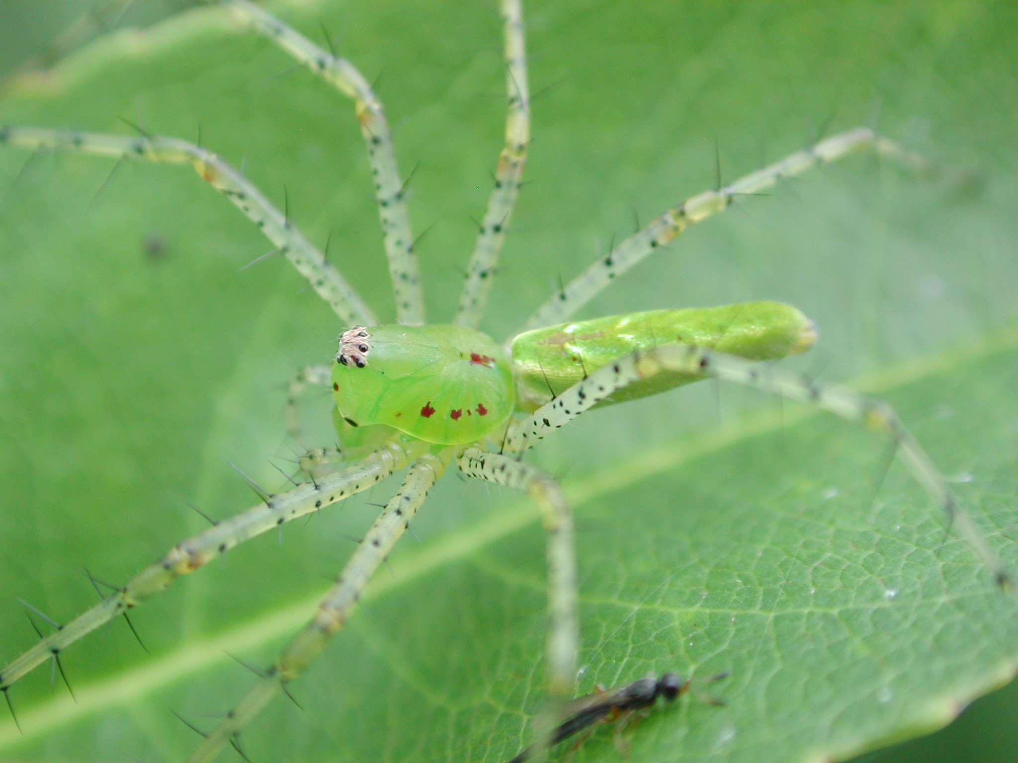 Green Lynx Spider. Author : Stephen Friedt